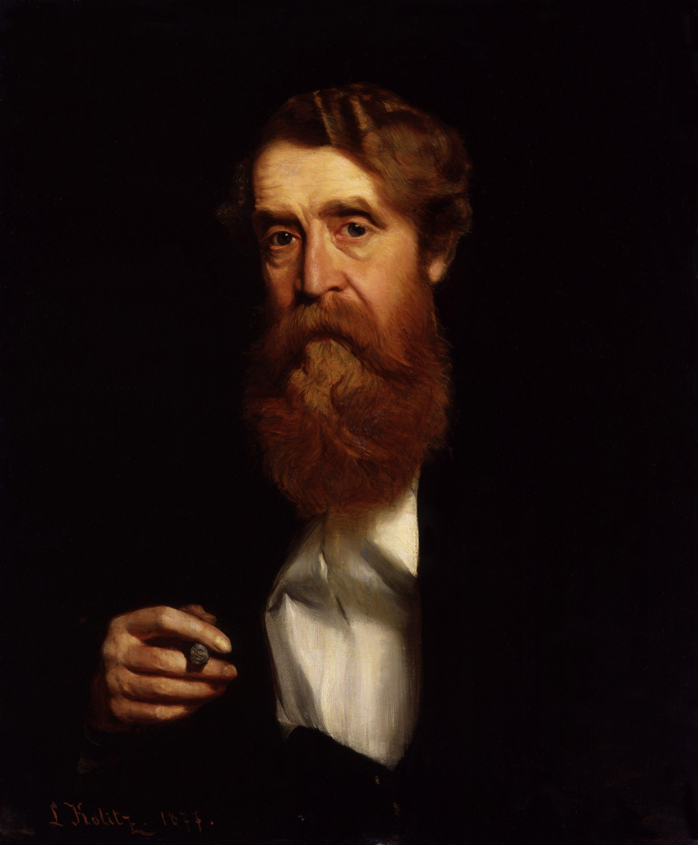 Sir Joseph Archer Crowe, by Louis Kolitz (died 1914), given to the National Portrait Gallery, London in 1963. All images in this batch have been confirmed as author died before 1939 according to the official death date listed by the NPG.